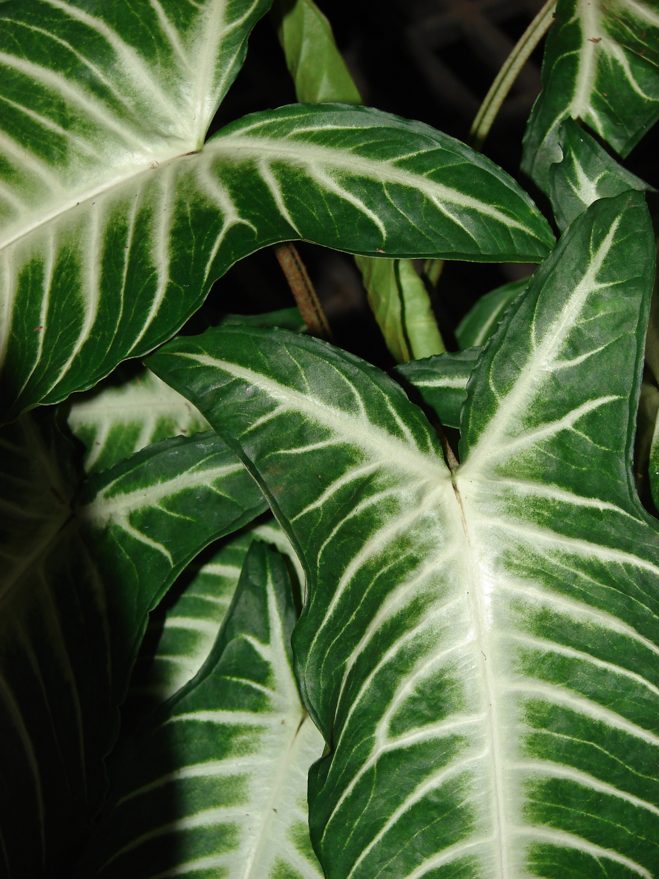 Caladium lindenii (Magnificum leaves). Location: Maui, Kula Ace Hardware and Nursery